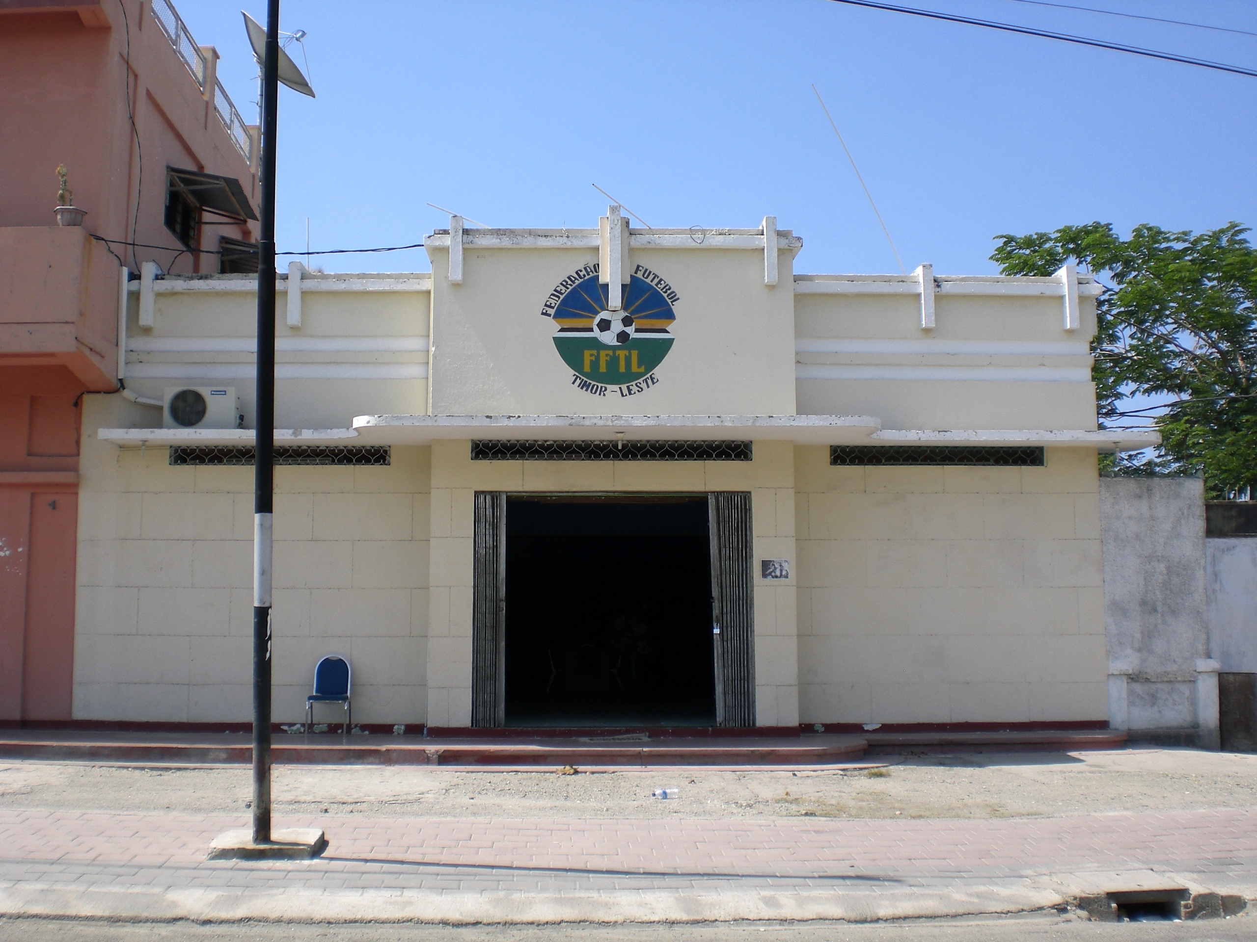 Federação de Futebol de Timor-Leste building in Dili/Timor-Leste